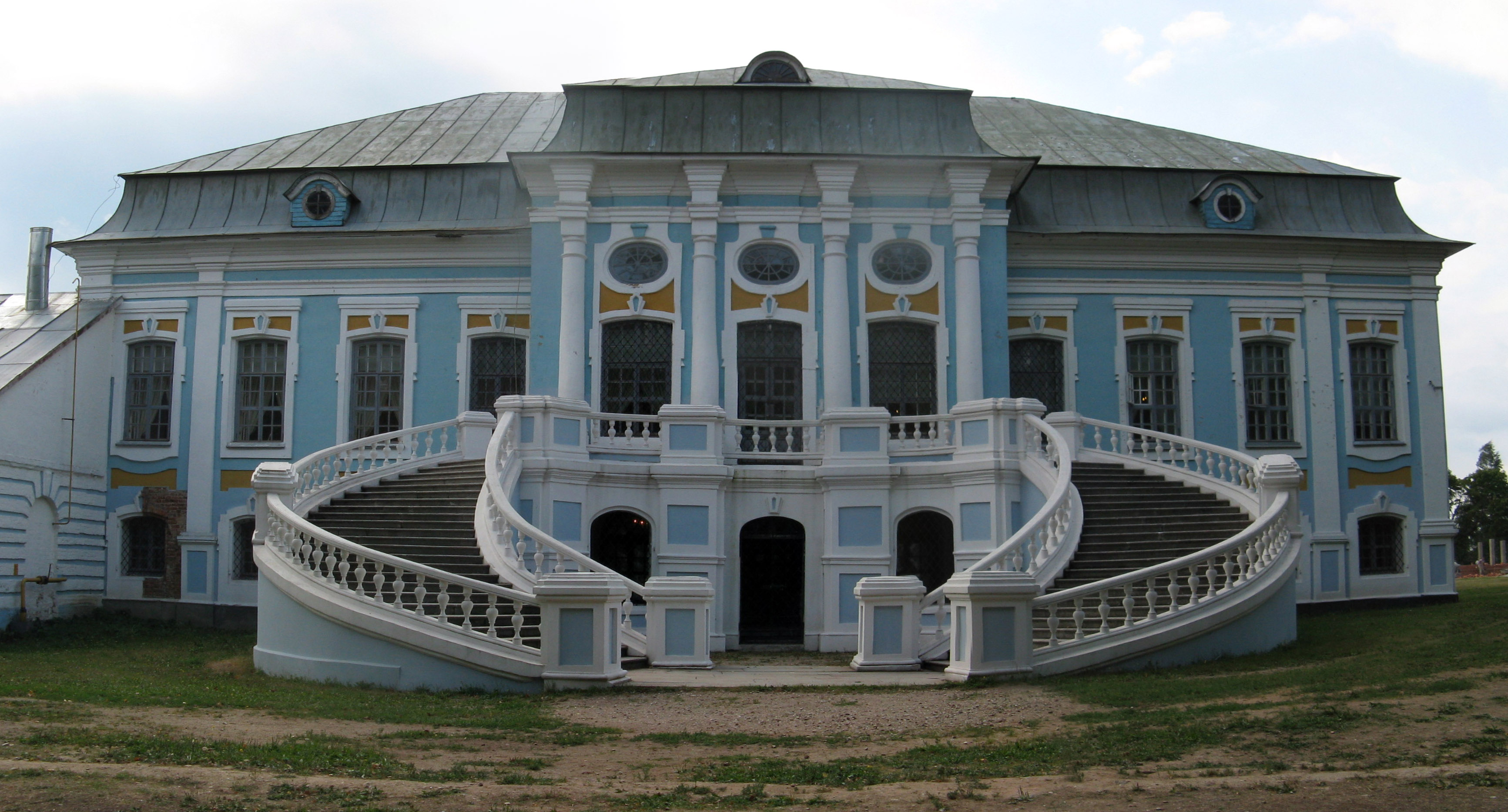 Rear facade of Khmelita manor, Smolensk oblast of Russia